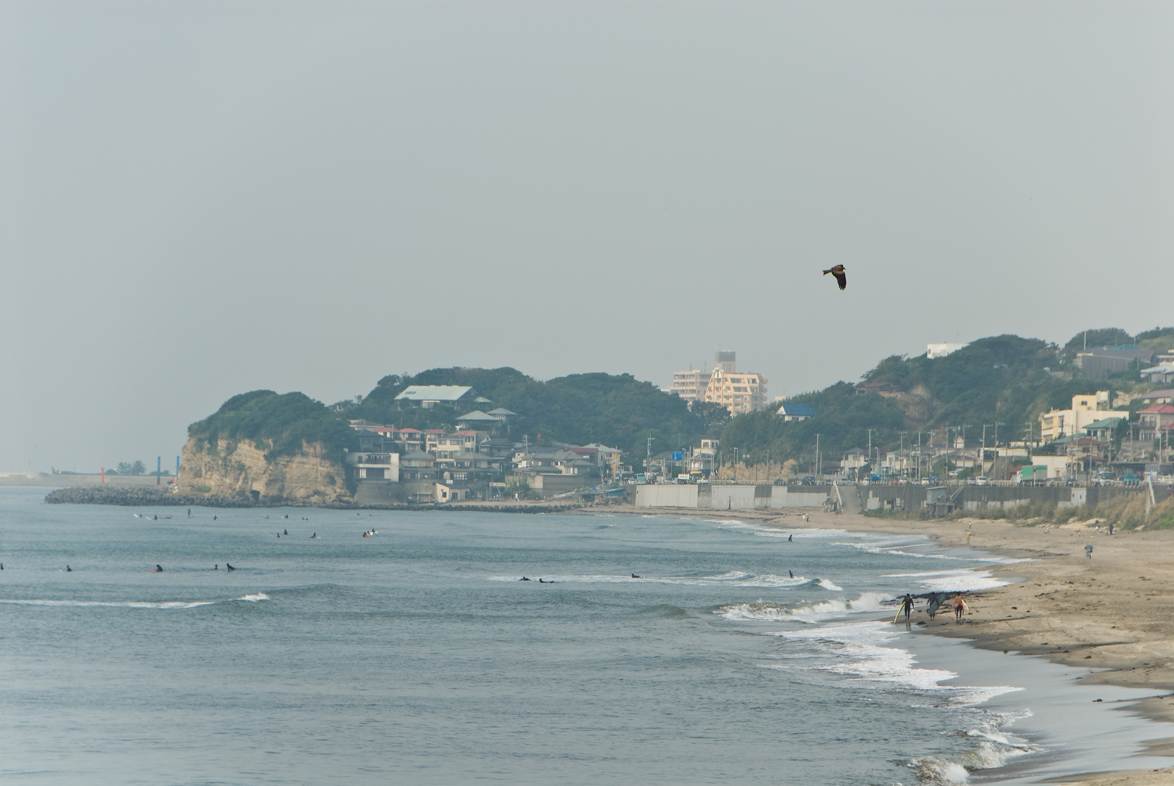 A photo of Koyurugimisaki Cape, near Enoshima, Japan